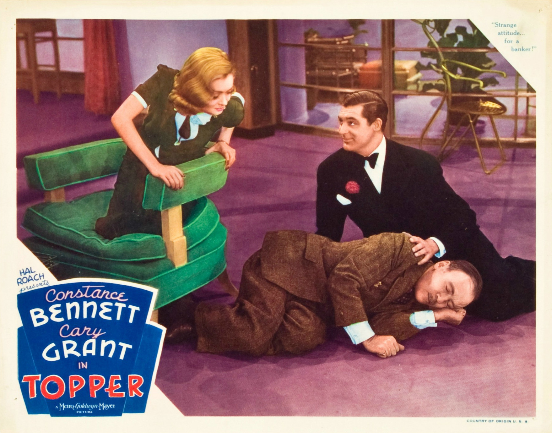 Lobby card for the 1937 film Topper. There are no copyright marks. At bottom right is Country of origin USA.